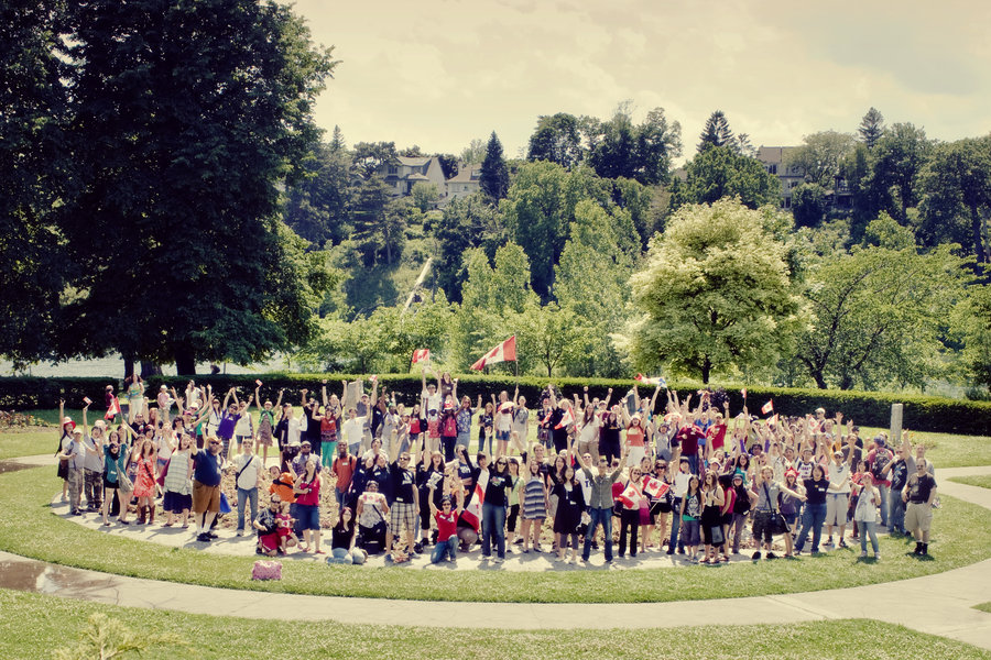 Toronto meet from the deviantART World Tour